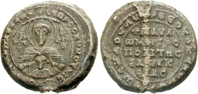 Paul. Metropolitan of Seleucia, 8th-9th century. PB Seal (28mm, 18.23 g, 12h). +CEPROCVNOVMENTOV[...], facing bust of the Theotokos, wearing chiton and maphorion, holding medallion of the child Christ; cruciform monograms flanking / QEOTOKE [BOHQEI] Tw Cw DOVLw in circular inscription; +PAVL/w MHTRO/POLITH C/ELOVK/CIAC in five lines in center. BLS I -; DOCBS -; Seyrig -; Vatican -; Orghidan -; Jordanov -. VF, brown-gray patina.